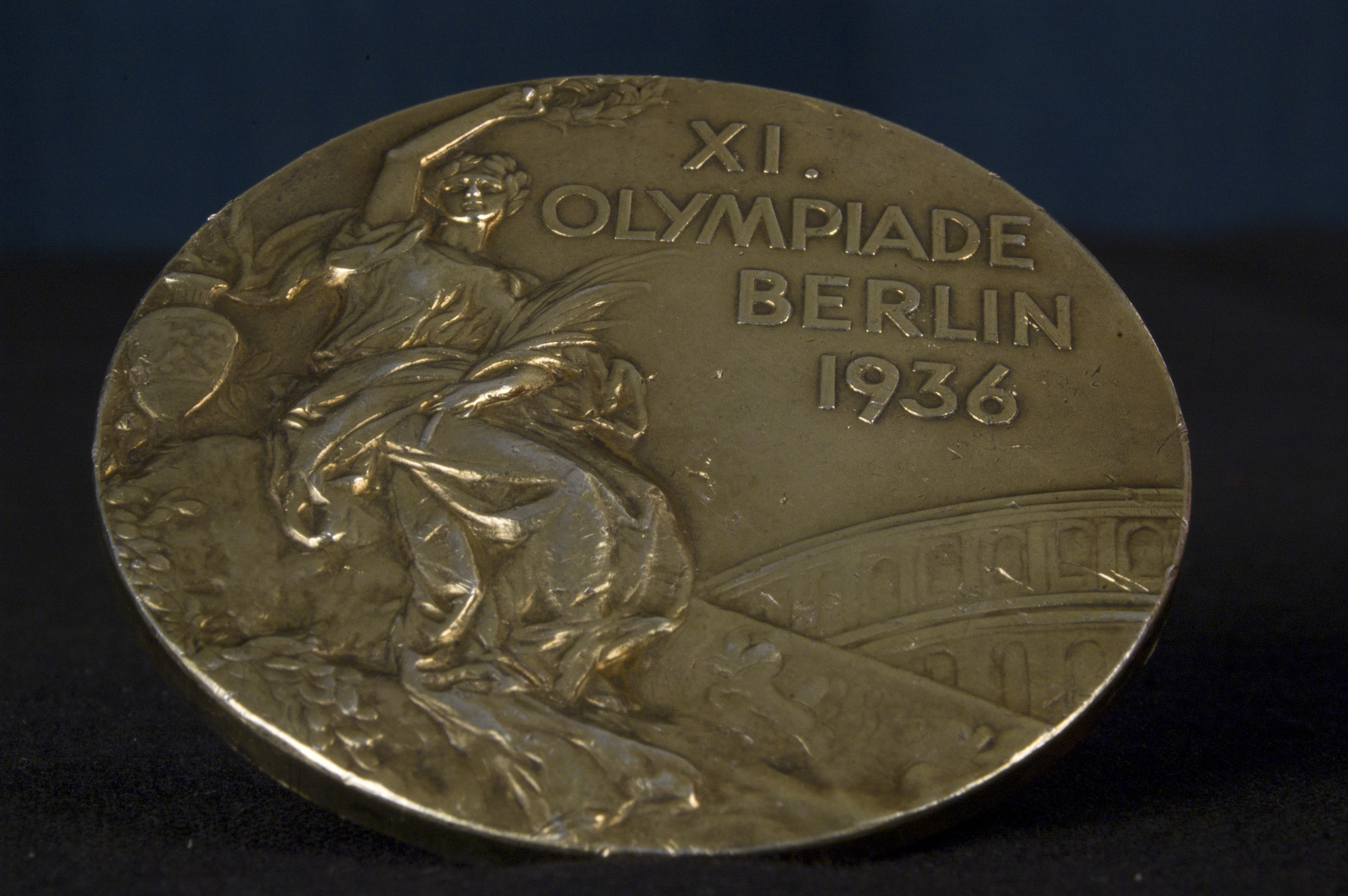 John Woodruff's gold Medal from the XI Olympic Games, Berlin, Germany, 1936.